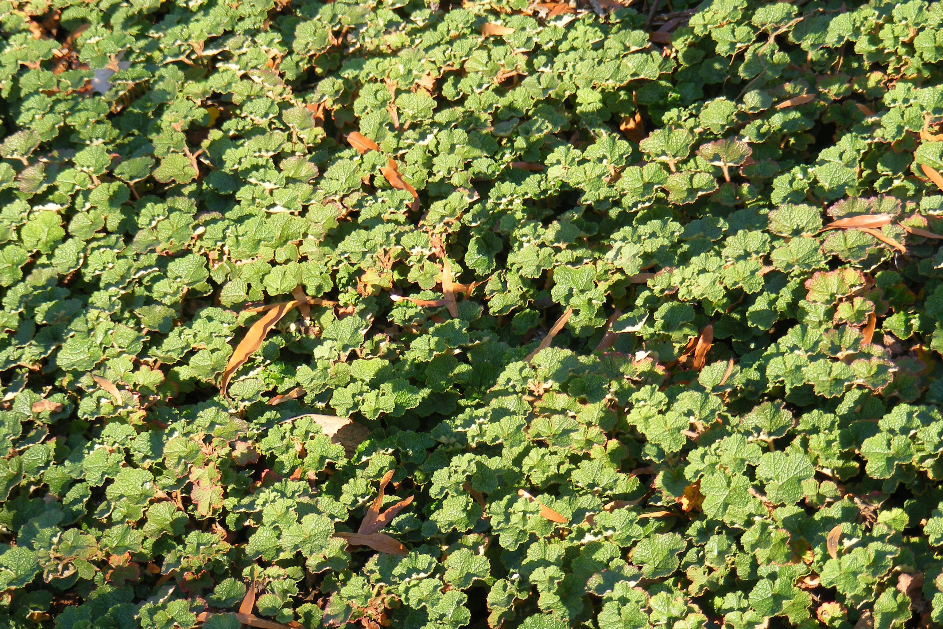 A raspberry bush of the rubus genus. A sign near the bush labeled it as a "rubus calycinoide."